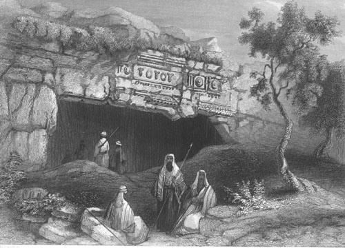 The "Tomb of the Kings", built outside the walls of Jerusalem by Queen Helena of Adiabene in the mid first century CE. From a lithograph by William Henry Bartlett in the 19th century.